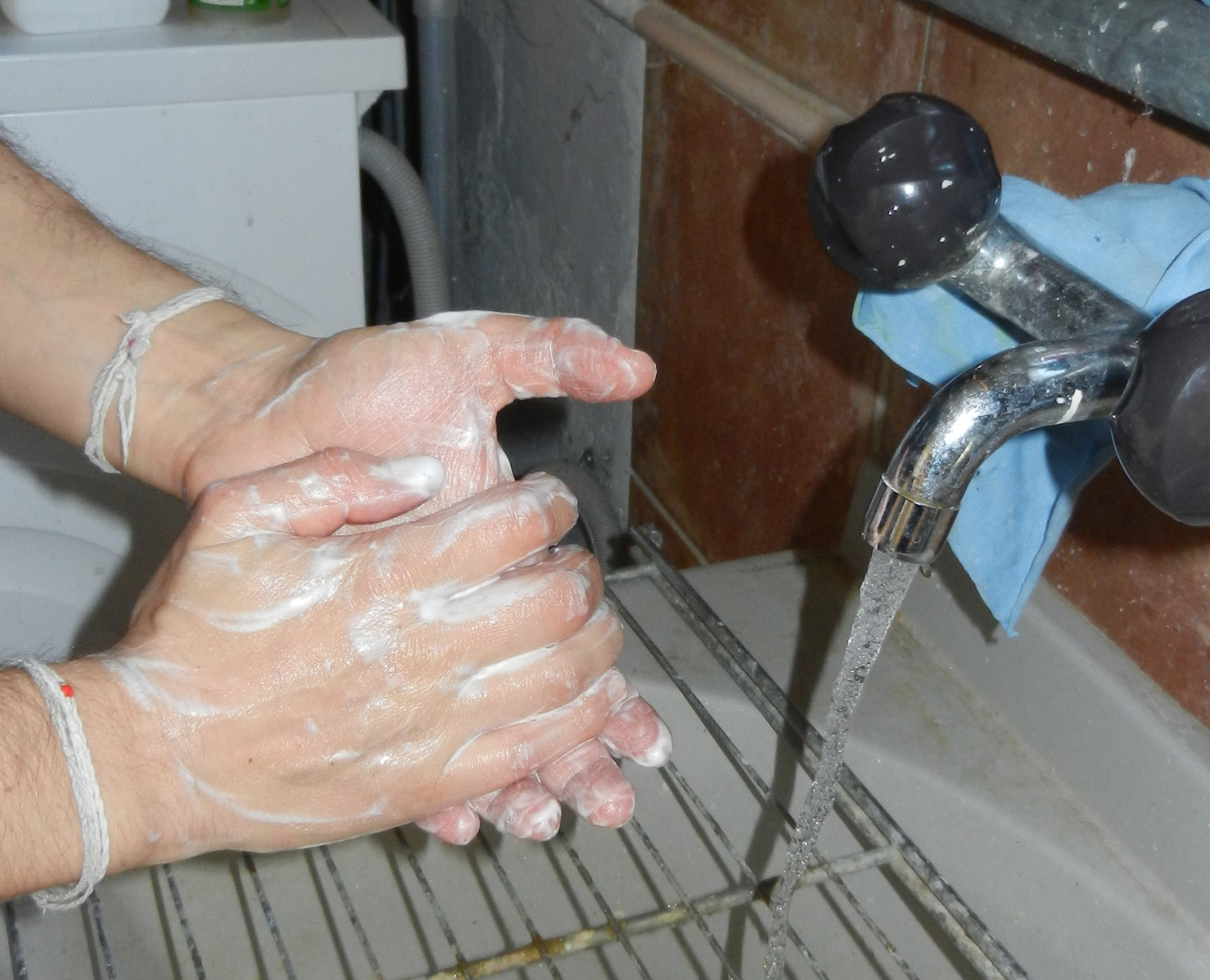 A person washes his hands with soap under the tap.